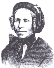 Mathilda Foy, Swedish-English philanthropist